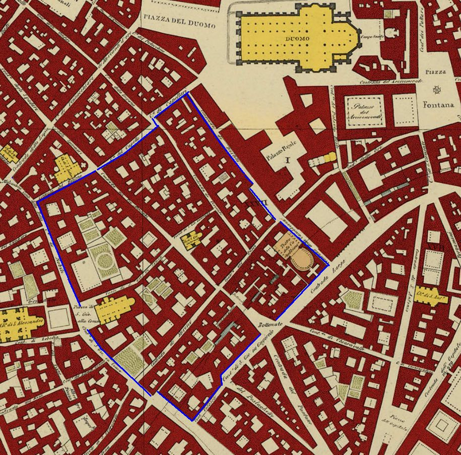 part of a map of mIlao published in 1814 depicting the Bottonuto distict